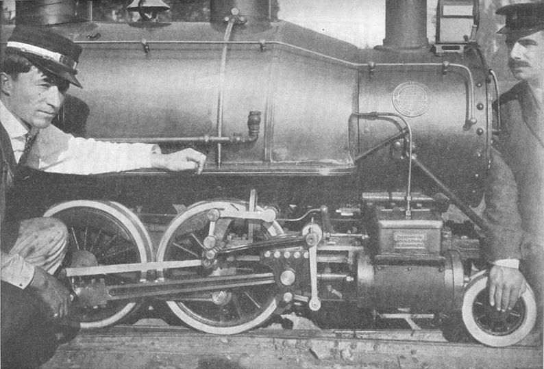 Arthur W. Line: Model Railways - XIX. - Eastlake Park Scenic Railway, Los Angeles, California. The Model Engineer and Electrician, 23 April 1908. Pages 395-399. Cropped and rotated version.